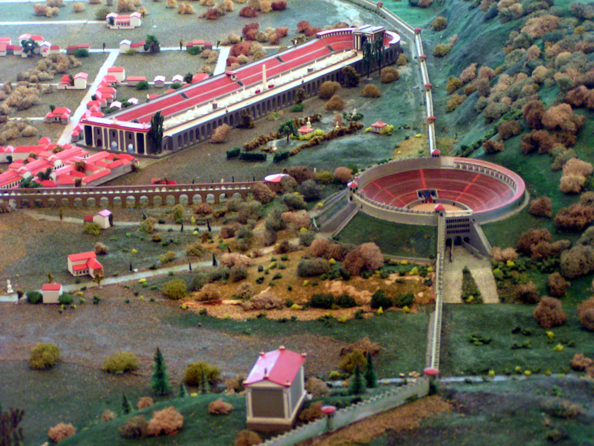 Trier, Amphitheater and Circus, Model in the Rheinisches Landesmuseum Trier, built by Joachim Woditsch, Trier